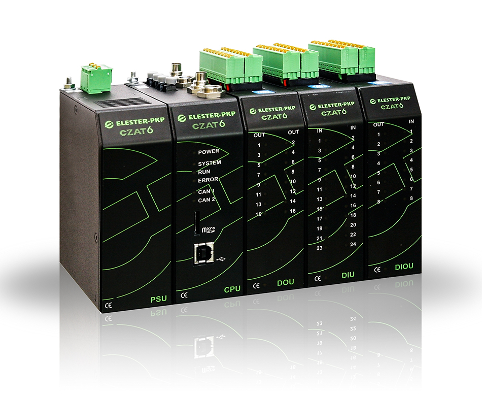 Elester-PKP: Sterownik CZAT6